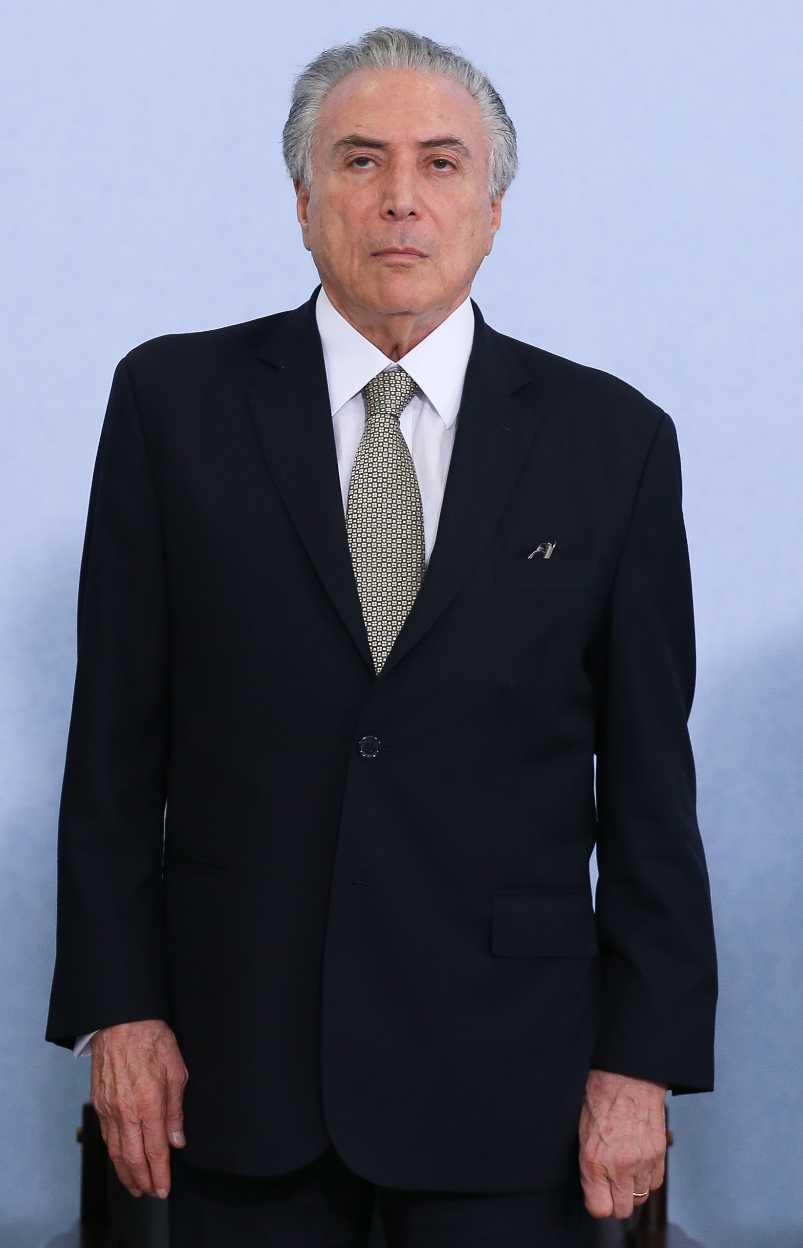 Brasília 25/08/2016 - Presidente interino, Michel Temer, durante Cerimônia de Recepção da Tocha Paralímpica. Foto: Lula Marques/Agência PT